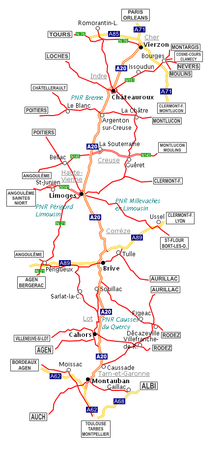 Map of the French motorway A20, between Vierzon (Cher) and Montauban (Tarn-et-Garonne)